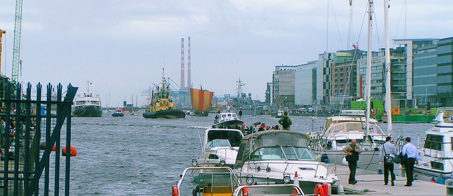 Havhingsten fra Glendalough (The Seastallion from Glendalough) arrives at Liffey River, Dublin from Roskilde, Denmark, passing through the Dublin Docklands area.